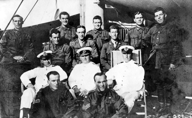 AWM caption: Melbourne, Australia, 1918-10. Aboard the troop transport Medic. Ten Victoria Cross winners of the First Australian Imperial Force who were invited by the Prime Minister of Australia, W.M. Hughes, to return to Australia to assist in recruiting campaign. Back row, left to right: SGT. W. Peeler, VC, 3rd Pioneers Battalion; Corporal T. J. Bede Kenny, VC, 2nd Battalion; SGT. J. W. Whittle, VC, DCM, 12th Battalion, CPL. J. C. Jensen, VC, 50th Battalion; PTE. J. Carroll, VC, 33rd Battalion. Centre row: Lieutenant J. J. Dwyer, VC, 4th Machine Gun; LIEUT. L. Keysor, VC, 1st Battalion; LIEUT. W. Ruthven, VC, 22nd Battalion. Troop Transport Medic Officer, 1st Officer CAPT. Simmons. Front row: Sergeant R. R. Inwood, VC, 10th Battalion; SGT. S. R. McDougall, VC, 47th Battalion.